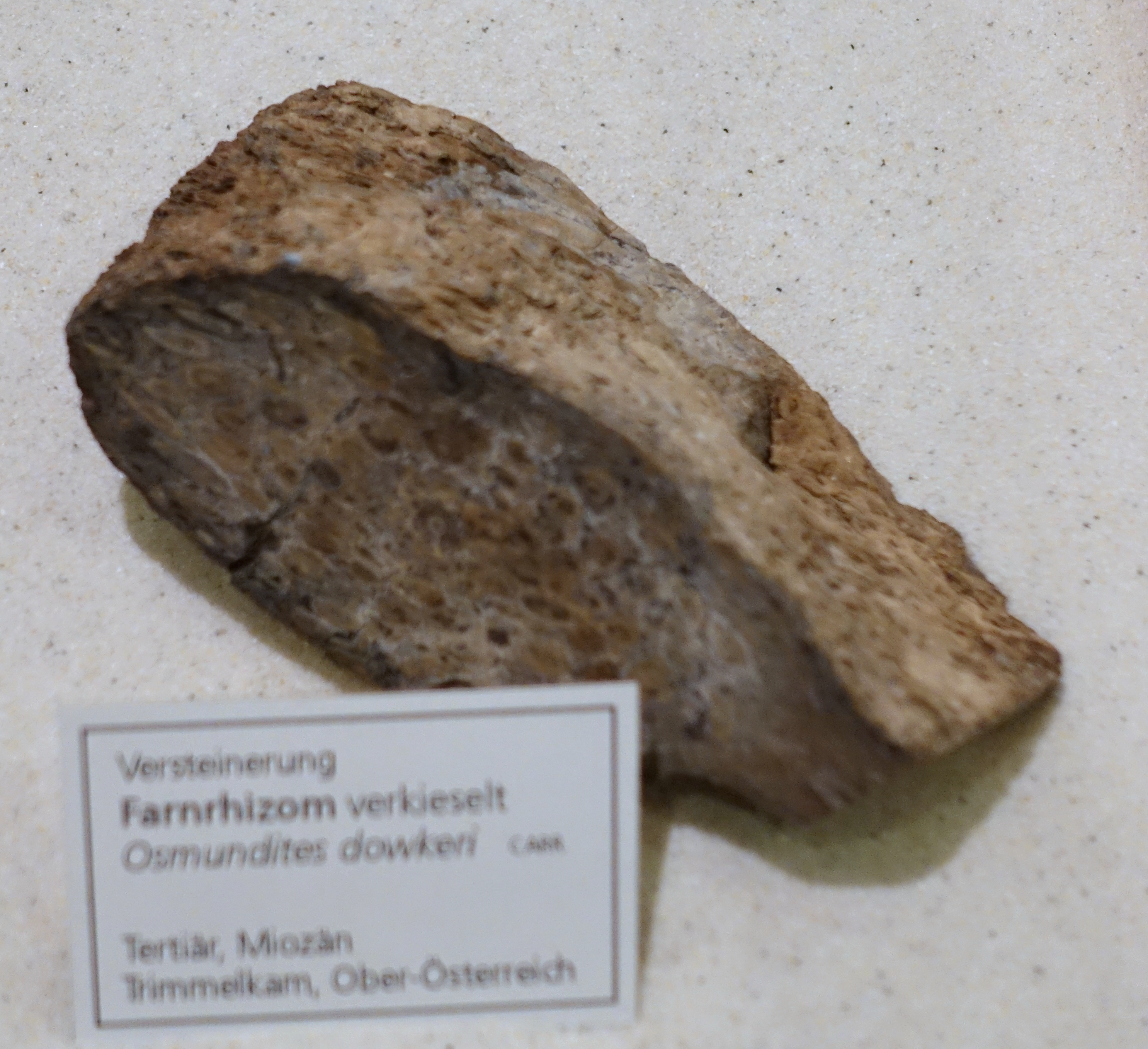 Exhibit in the Naturhistorisches Museum, Braunschweig, Germany.